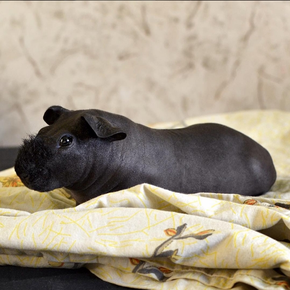 Guinea pig skinny in the home.